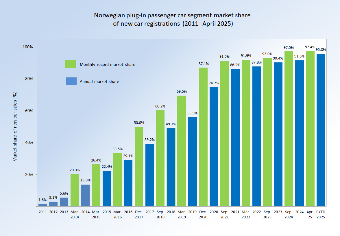 Historical evolution of the Norwegian plug-in electric car segment market share of new car sales (by year and selected top months). Source: 2011-2015: OFV (Norwegian Road Federation); 2016: Norsk Elbilforening (Norwegian Electric Vehicle Association); 2017: OFV; 2018: OFV; 2019: OFV; and March 2020: OFV.